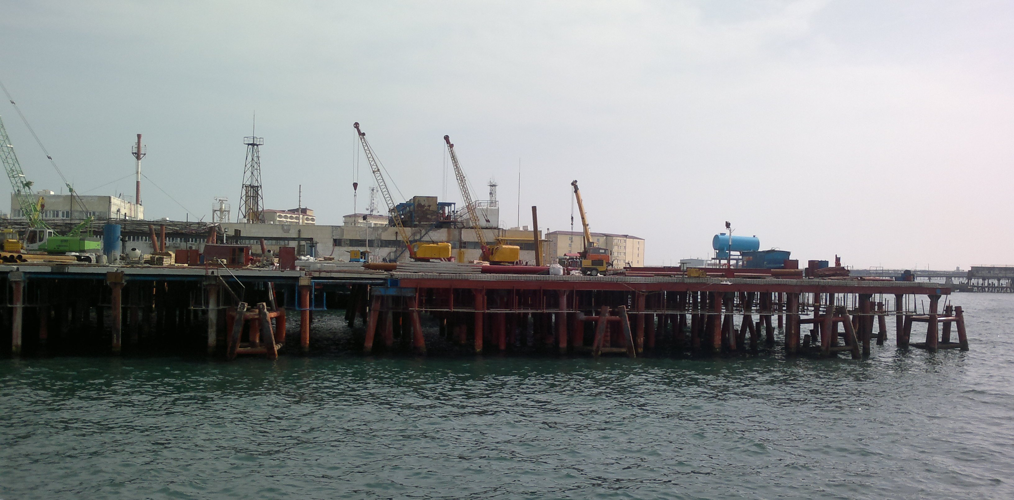 Docks in Oil Rocks (Caspian Sea, Azerbaijan sector)